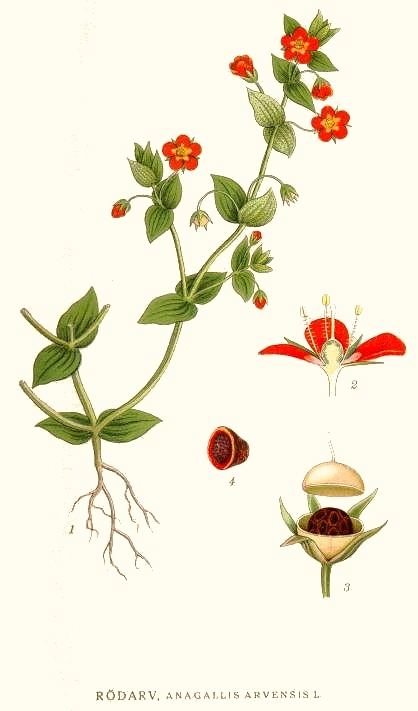 Original Description Rödarv, Anagallis arvensis L.